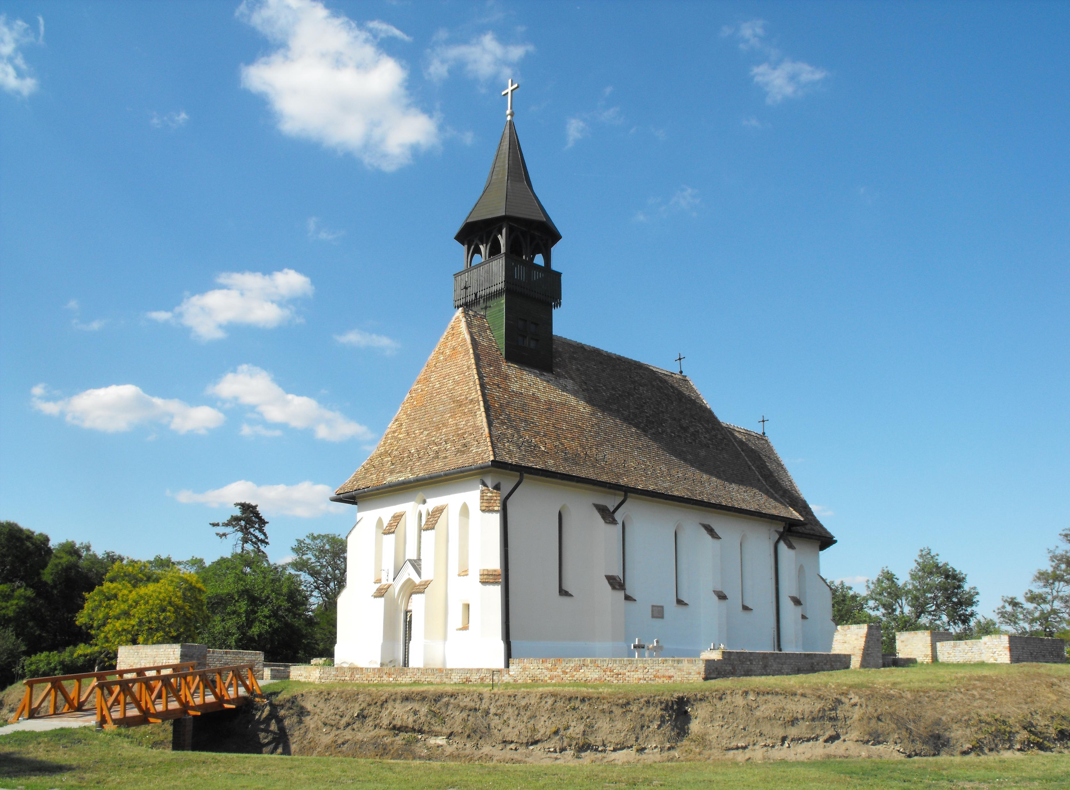 Fortified church in Óföldeák, Hungary.